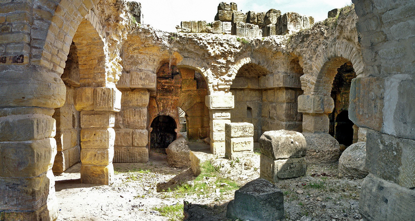 Thermal baths in Oudna-Uthina (Tunisia)